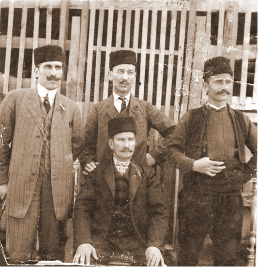 Ivan, Lazar, Dimitar and Marko Radulov, 1910 Bansko